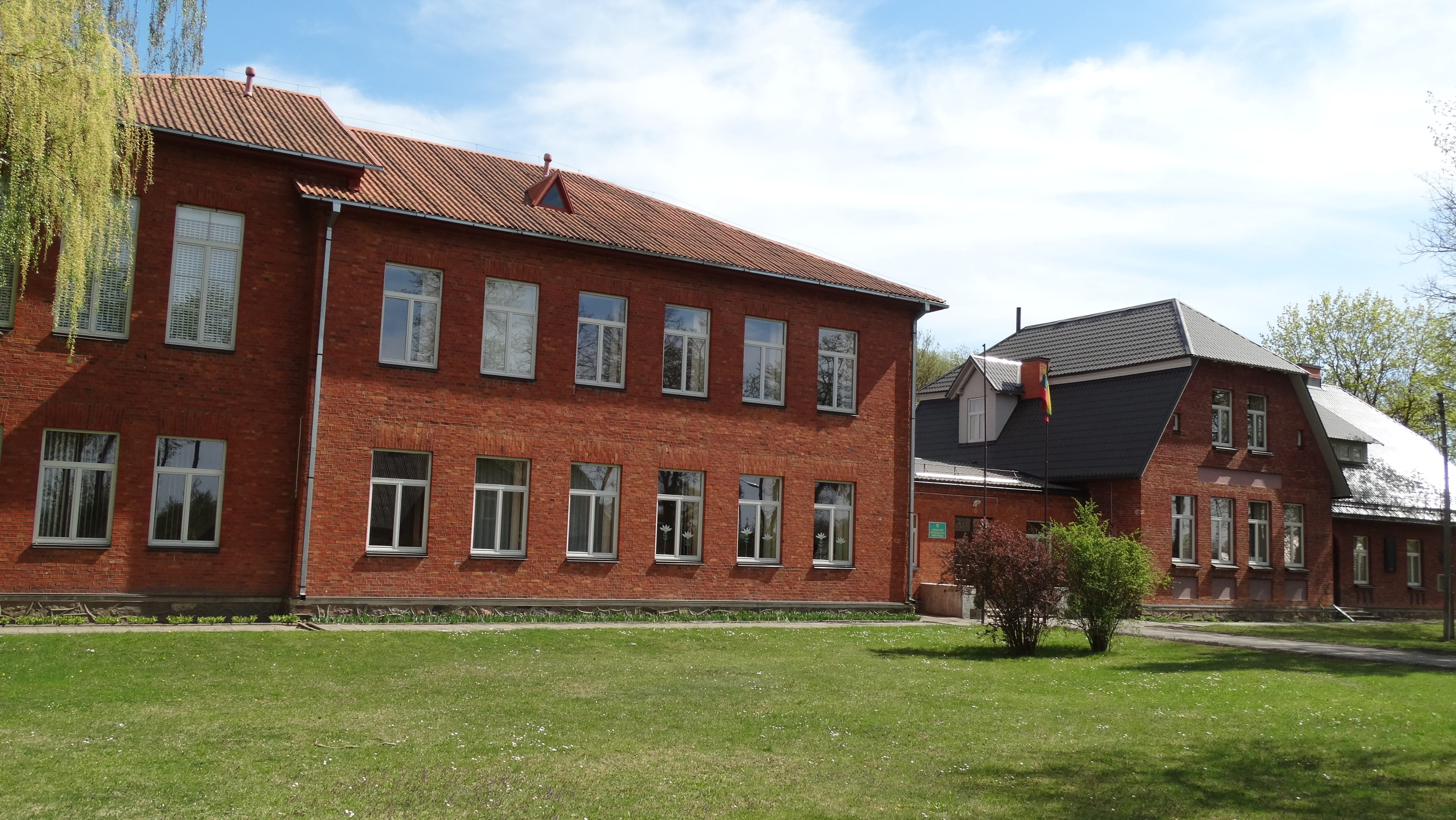 Linkuva special school, Pakruojis District, Lithuania